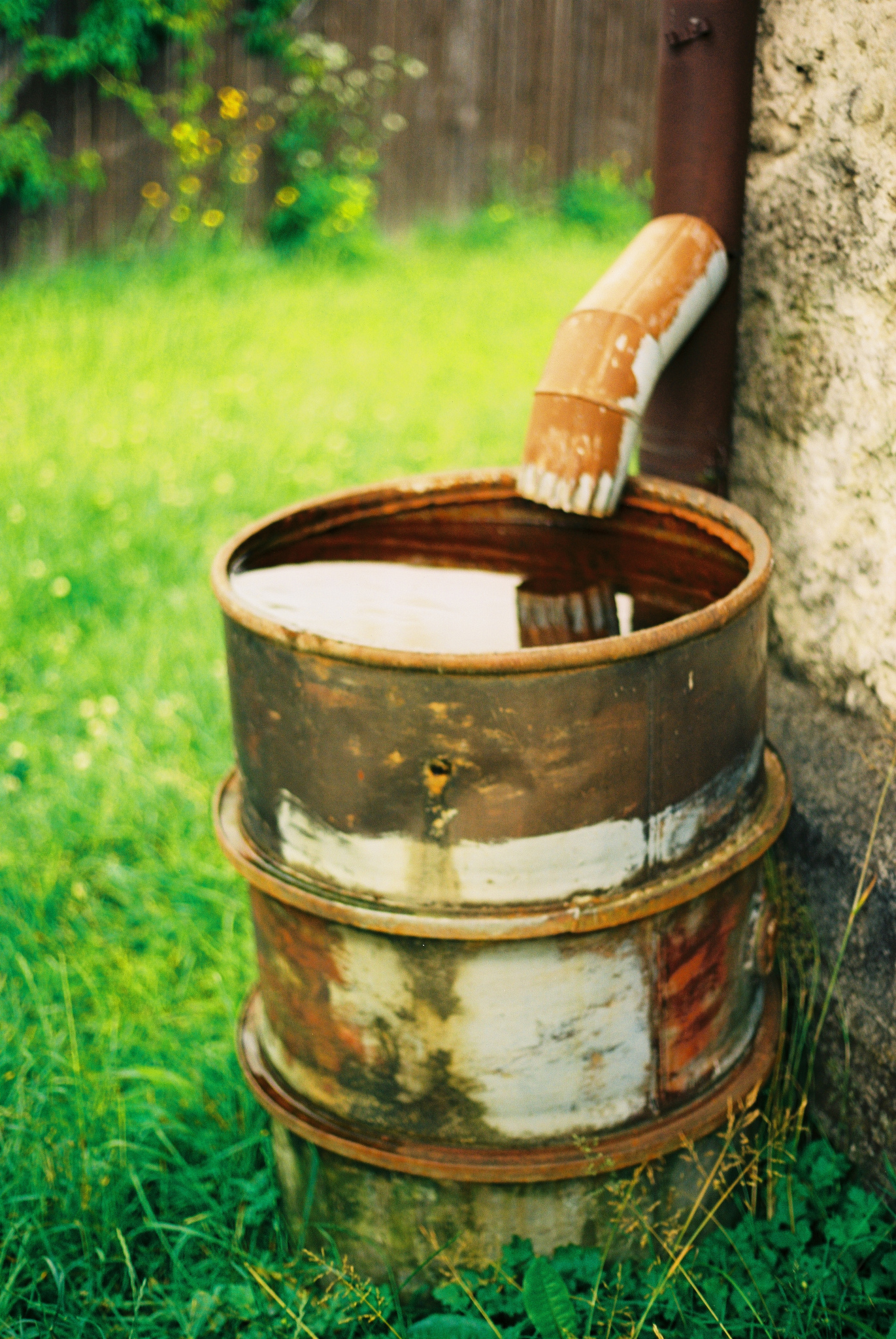 Things I've met during my photowalks.